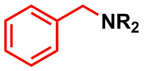 benzyl protective group